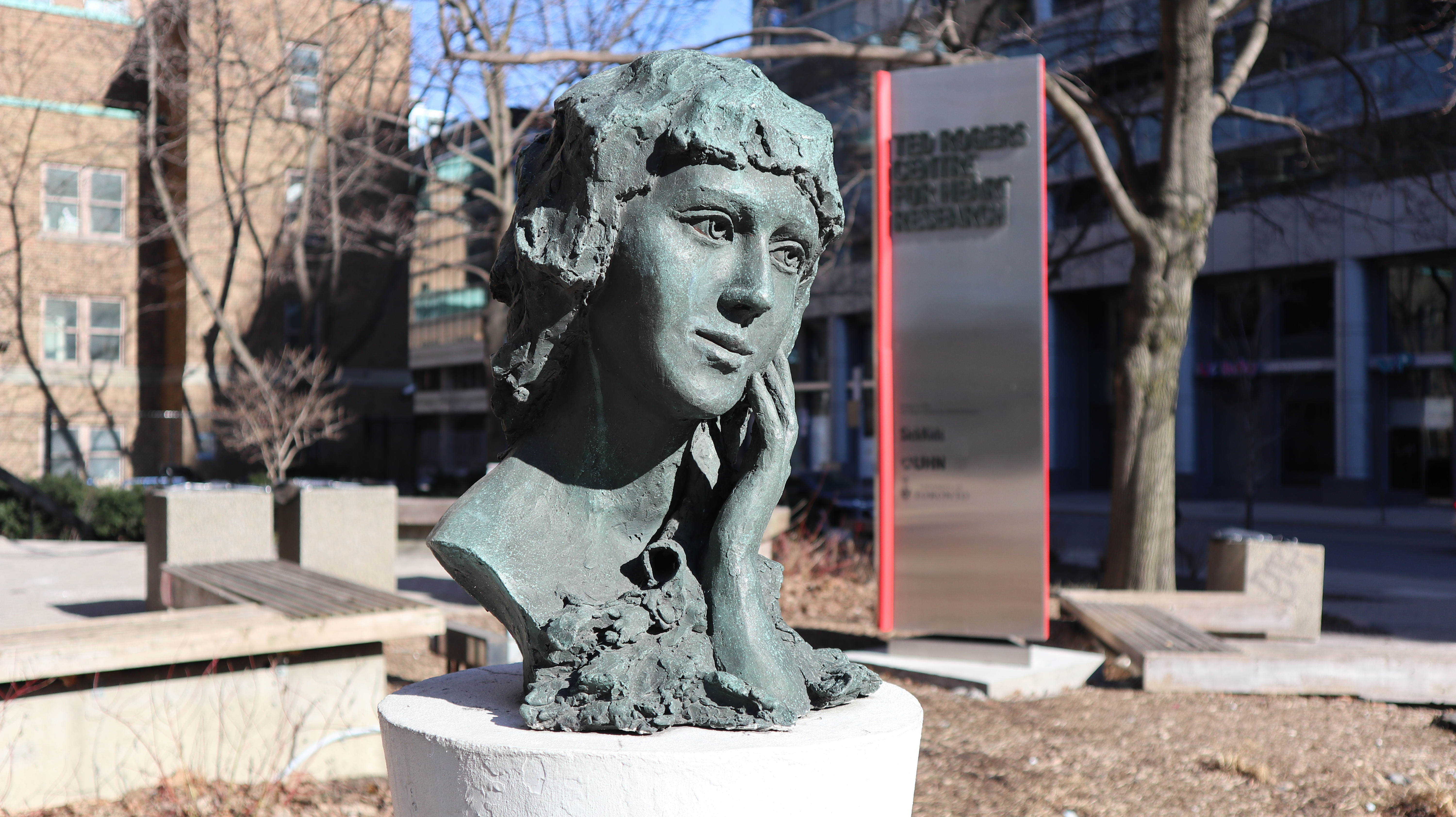 Gladys Louise Smith (April 8, 1892 – May 29, 1979), known professionally as Mary Pickford, was a Canadian-born American film actress and producer. With a career spanning 50 years, she was a co-founder of both the Pickford-Fairbanks Studio (along with Douglas Fairbanks) and, later, the United Artists film studio (with Fairbanks, Charlie Chaplin and D. W. Griffith), and one of the original founders of the Academy of Motion Picture Arts and Sciences who present the yearly "Oscar" award ceremony. Source: Wikipedia